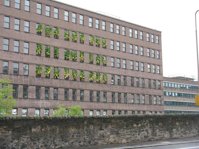 Tobacco House, Edinburgh, an installation by Ettie Spencer, part of the Edinburgh Art Festival 2008, consisting of tobacco plants growing from St Margaret’s House, an empty 1970/80s office block on London Road. With its history of harvesting by slave labour in the US, and grown as a cash crop in 3rd World countries, exploitation and a bad smell sticks to this lush looking plant. Yet, grown against a backdrop of an inner city office block, it is intended to provide a rich visual texture and an opportunity for urban dwellers to engage in the therapeutic activity of growing things. Issues about displacement and forced migration in our globalised, consumer-driven world are indicated in this work, as well as the shift from rural to urban environments, and the disconnection that goes with this process. Sprouting out of three of the top four floors of the massive empty building that was the Scottish Pensions headquarters, the work will be seen by passers-by, a very different way of ‘greening’ the city